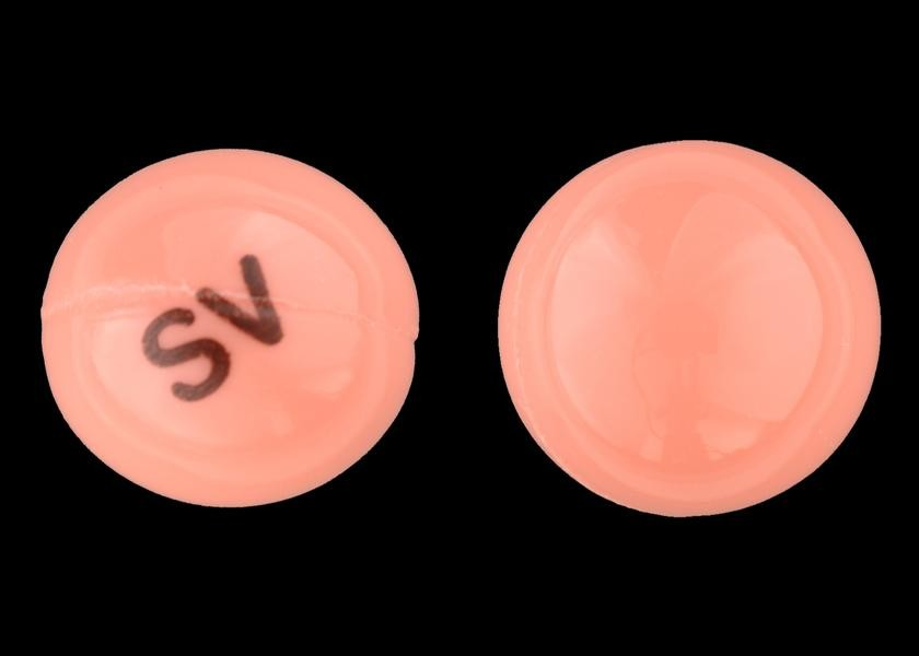 Drug Name: Prometrium 100 MG Oral Capsule Ingredient(s): Progesterone Drug Label Imprint: SV Color(s): Orange Shape: Round *Size (mm): 13.00 *Score: 1 Inactive Ingredient(s): ShowHide peanut oil / gelatin / glycerin / lecithin / titan... peanut oil / gelatin / glycerin / lecithin / titanium dioxide / d&c yellow no. 10 / fd&c red no. 40 Drug Label Author: Solvay Pharmaceuticals, Inc. * DEA Schedule: Non-scheduled